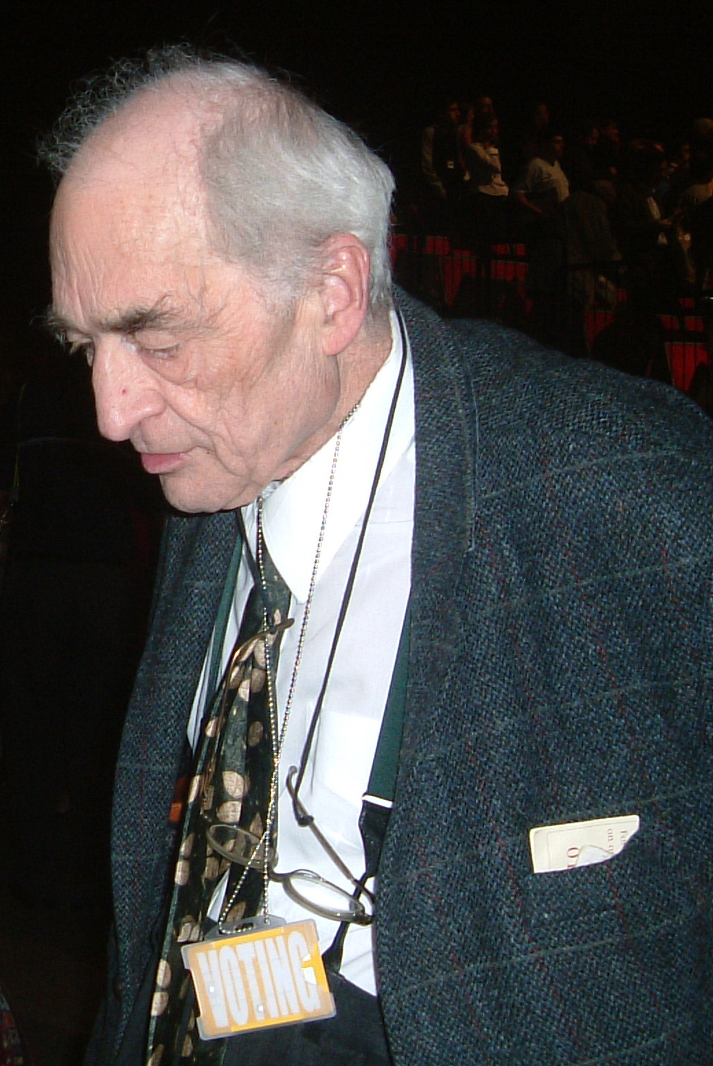 Lord Russell at the Liberal Democrat Conference 2003 in the Brighton Conference Centre 25 Sept 2003